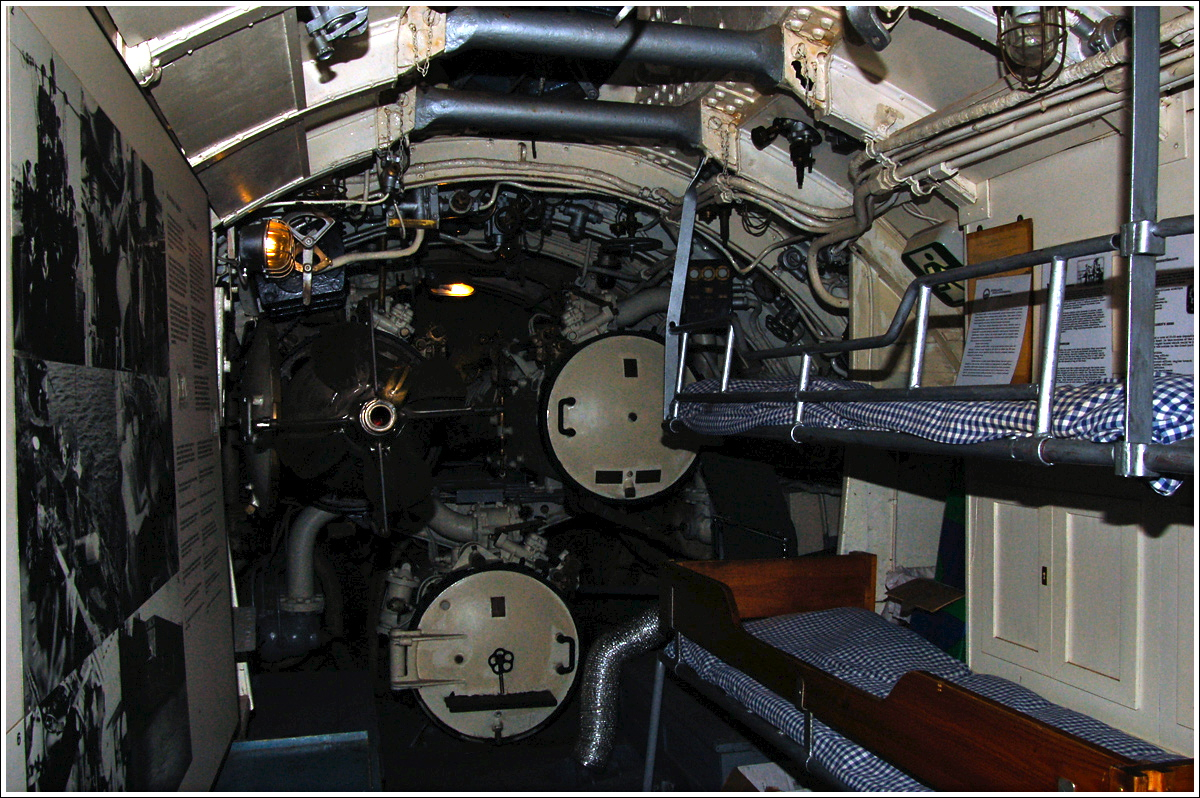 Beds and torpedo tubes of Vesikko.